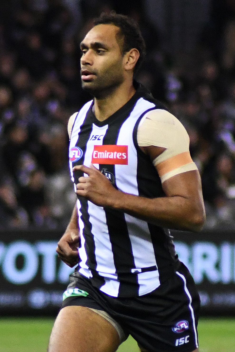 Travis Varcoe of Collingwood during the 2018 AFL round 21 match between Collingwood and Brisbane at Etihad Stadium on Saturday, 11 August 2018 in Melbourne, Victoria.